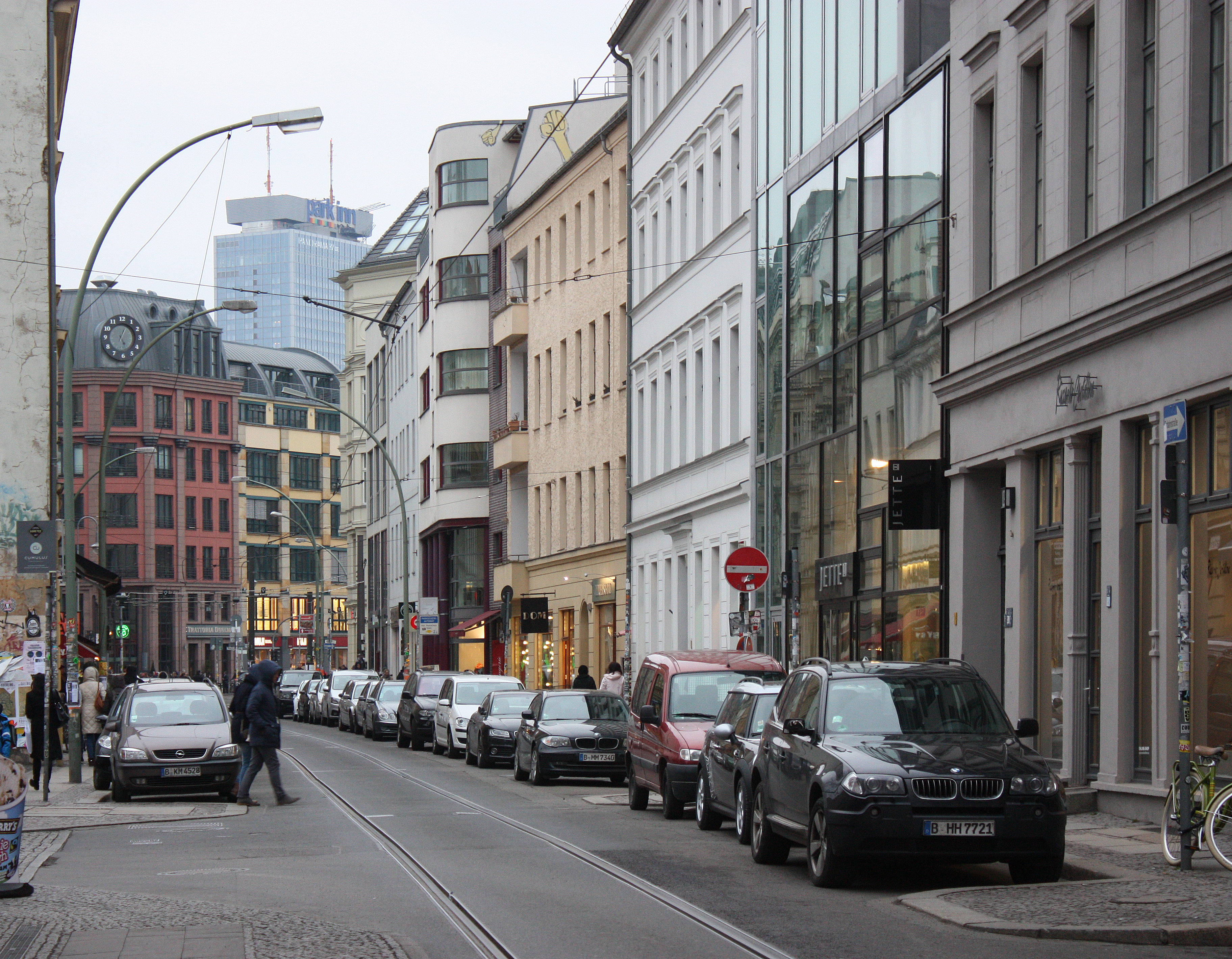 Berlin-Mitte, the street "Oranienburger Straße", eastern part